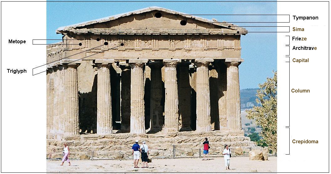 Features of a Doric temple